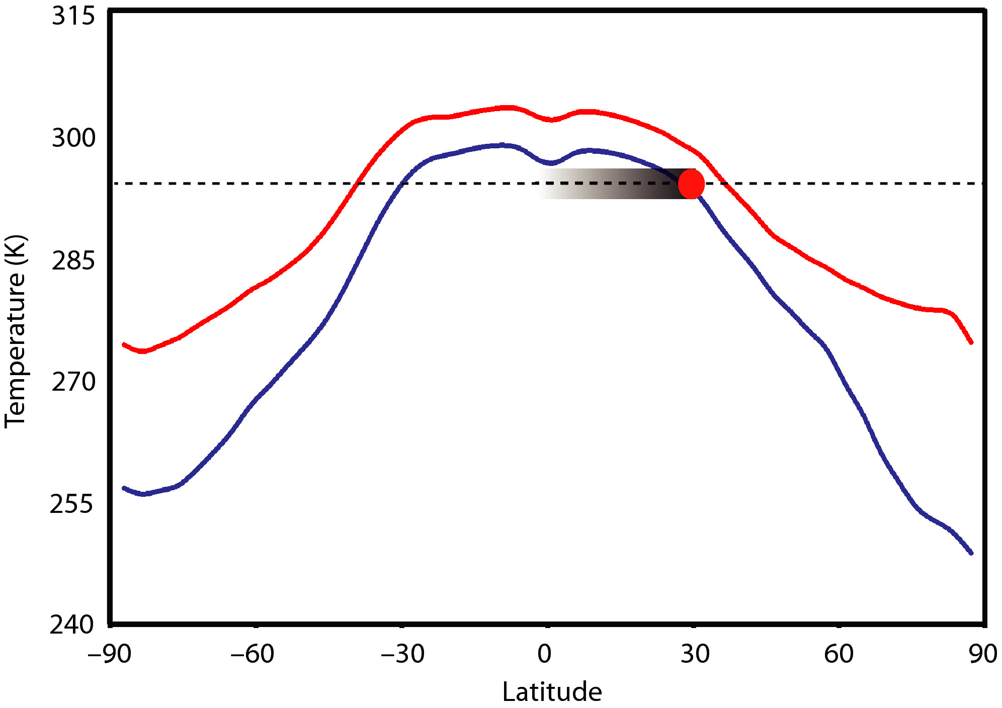 Graph showing average temperature during the Mesoproterozoic. Blue line uses atmospheric CO2 concentration of 5 times current levels, and red line 10 times current levels and 140 ppm methane. Red circle shows average temperature of tropics region